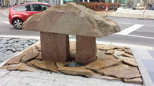 Das Sonnentor von Bautzen. Durch das Tor scheint die Sonne im warmen Halbjahr auf dem Weg vom Frühling bis zur Sommersonnenwende und zurück bis zum Herbst.